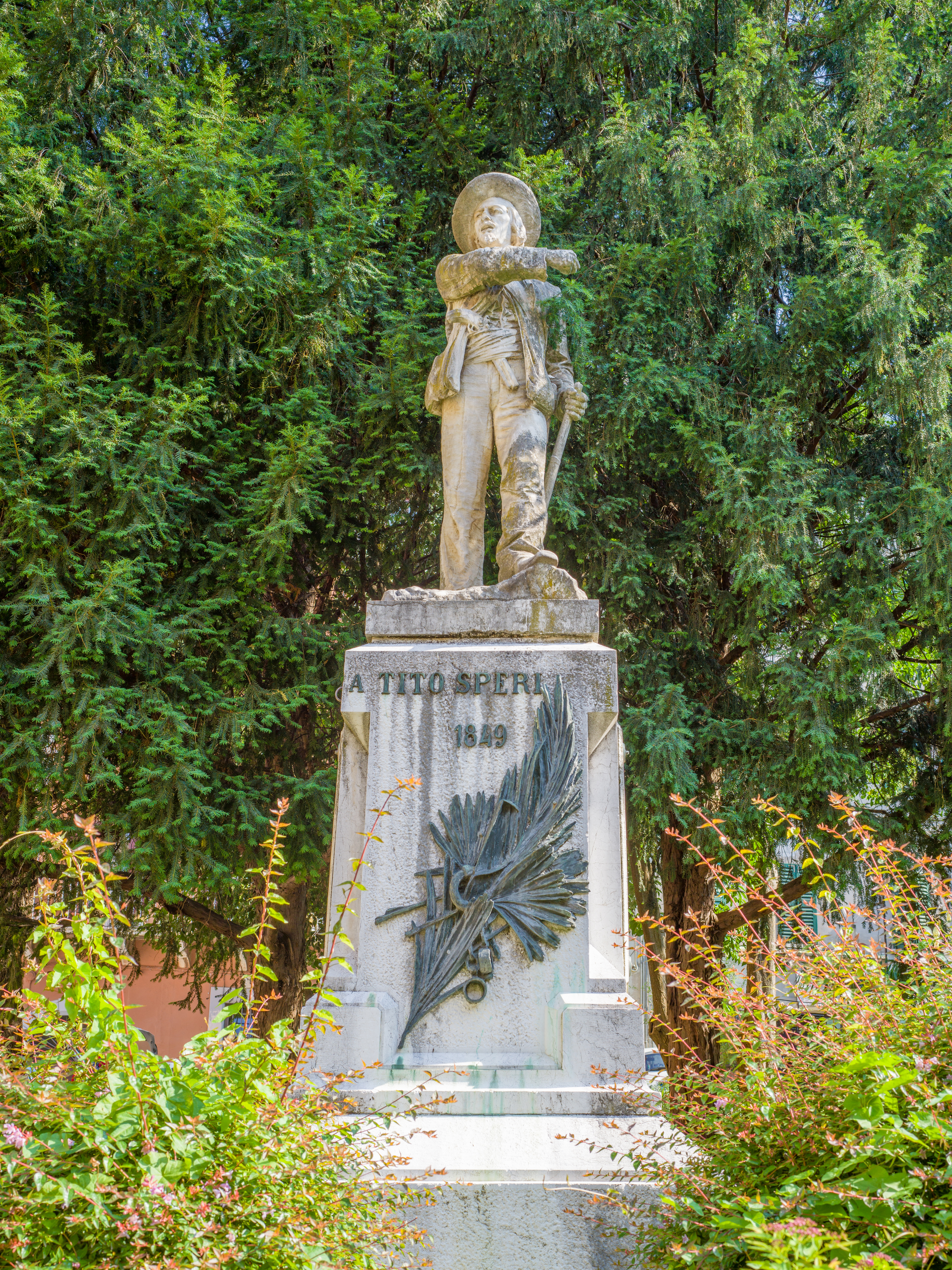 Monument to Tito Speri by Domenico Ghidoni in Brescia.